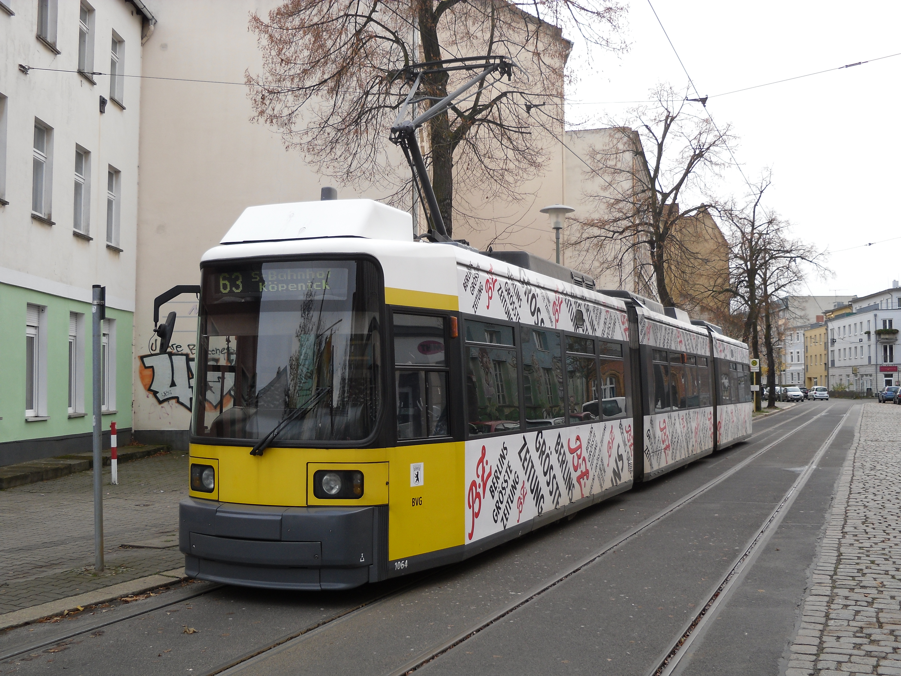 Tram № 1064 at Haeckelstraße stop in Johannisthal